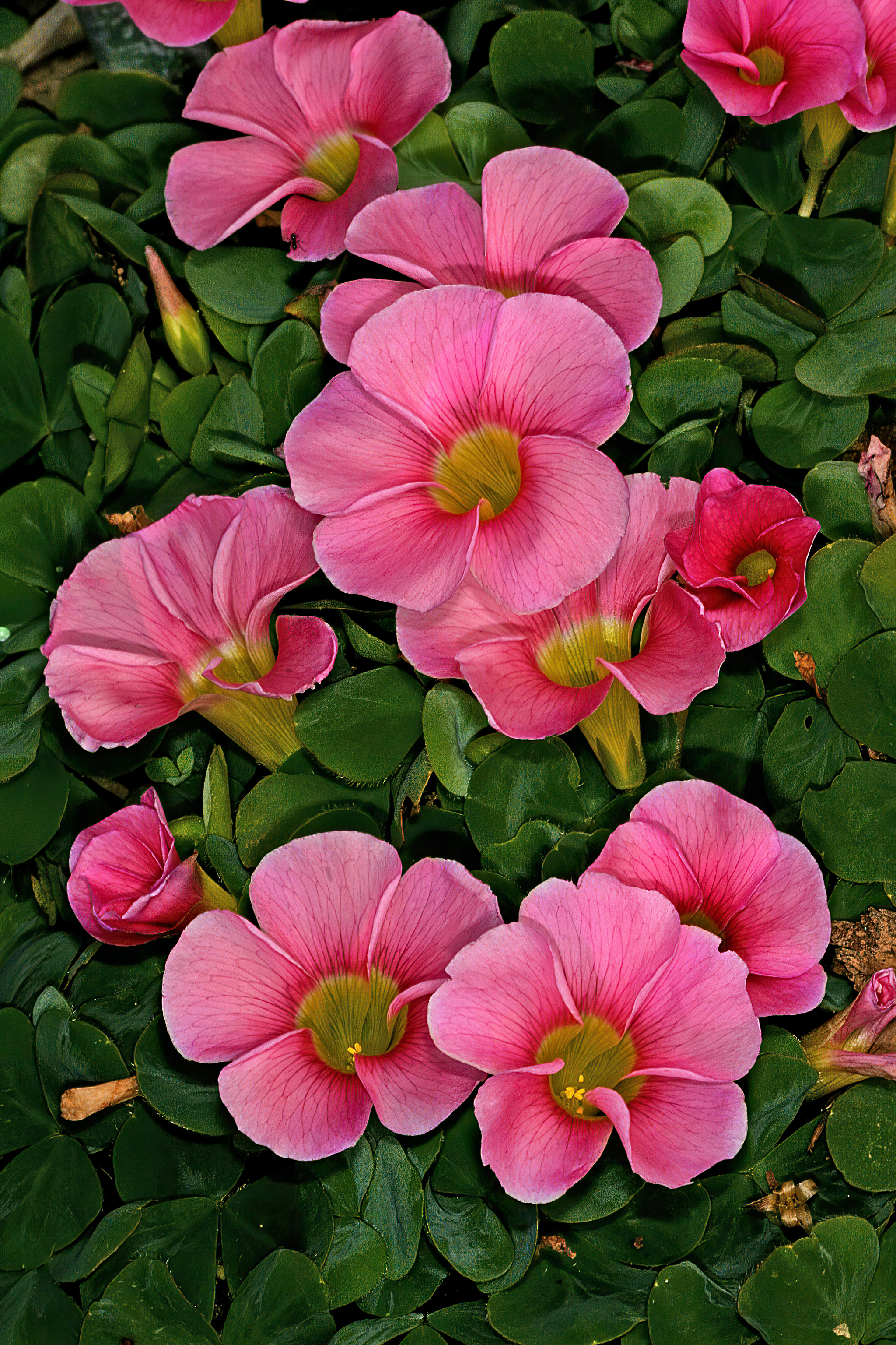 Oxalis purpurea, plants in flower; Kirstenbosch National Botanical Garden (natural), Cape Town, Western Cape, South Africa